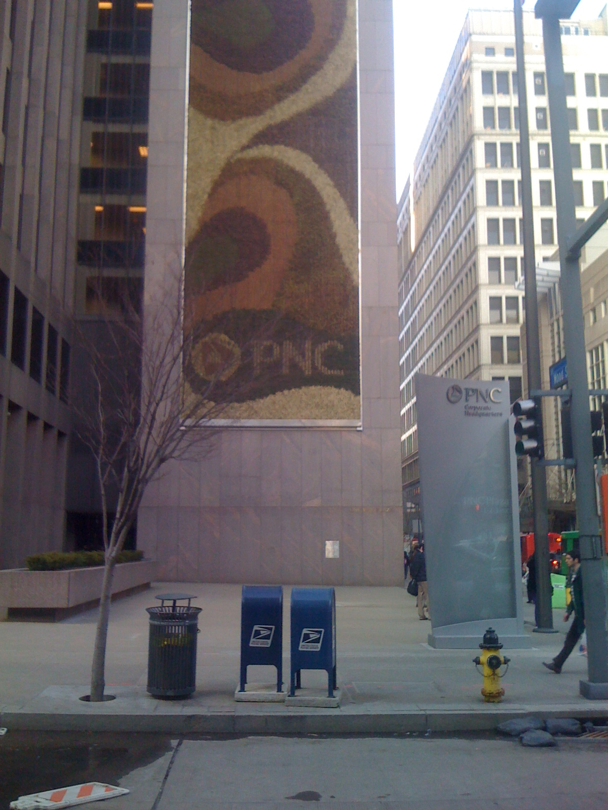 PNC's headquarters in Downtown Pittsburgh. Took image myself.